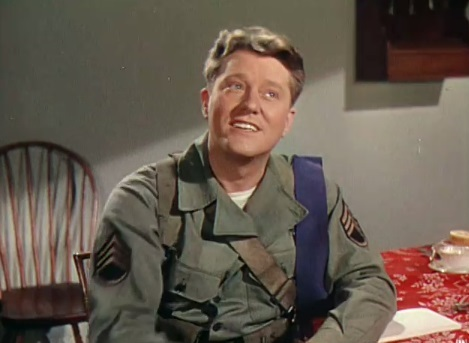 Michael O'Shea in Something for the Boys - trailer (cropped screenshot)